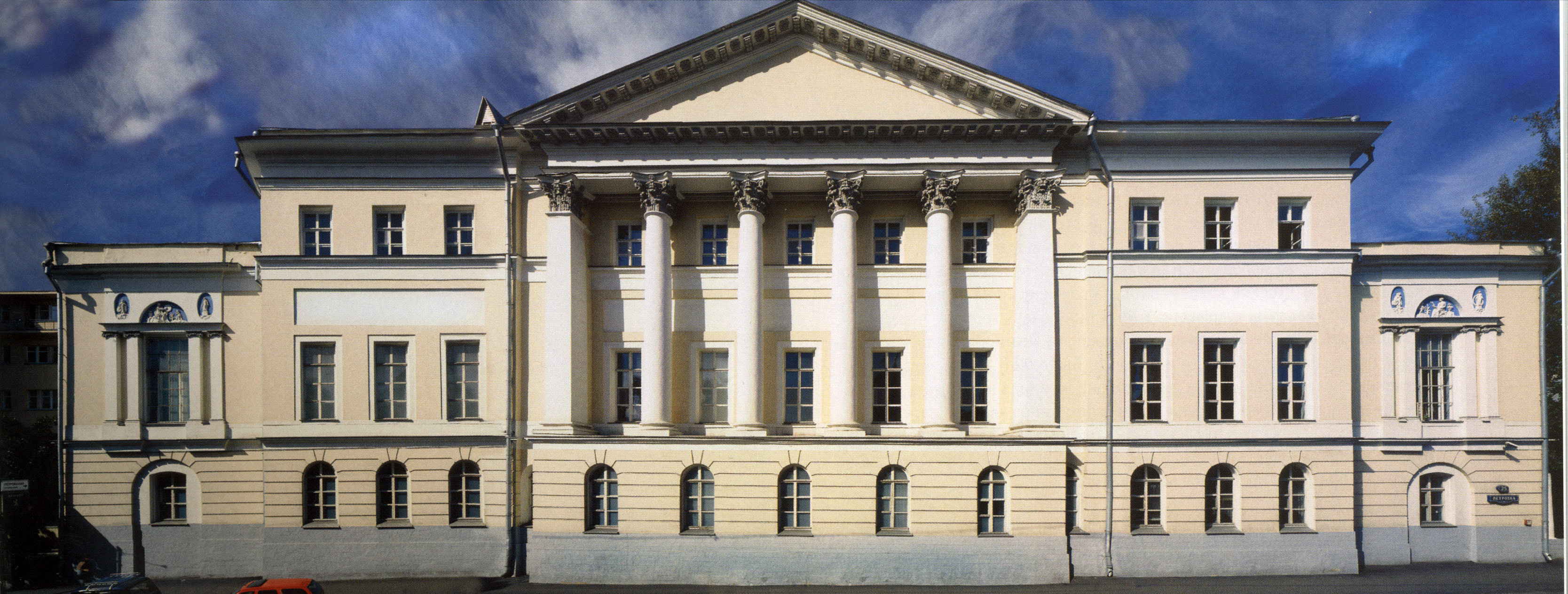 Фасад главного здания музея на Петровке, 25